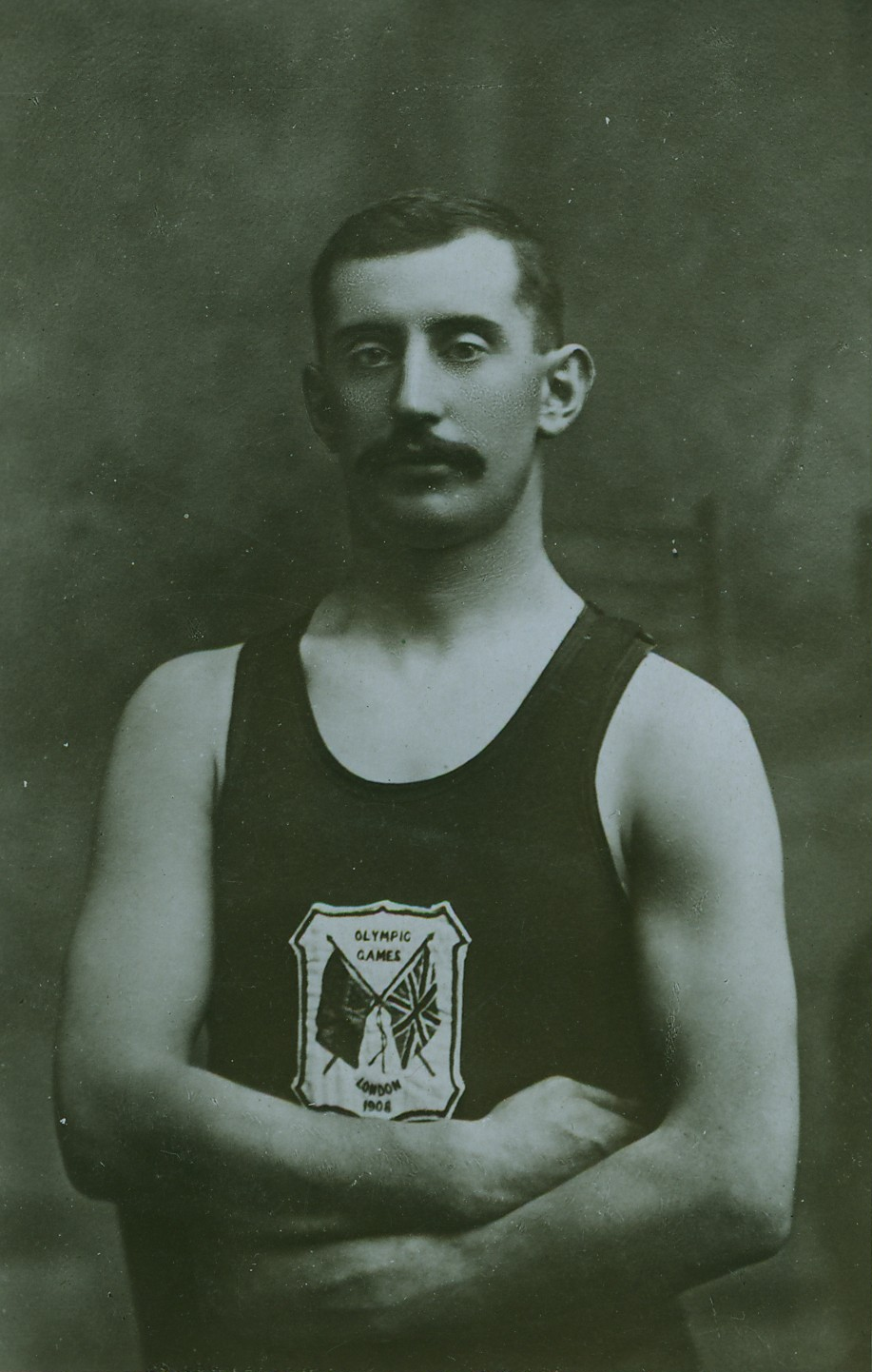 George Nevinson Olympic Water Polo Gold medal winner